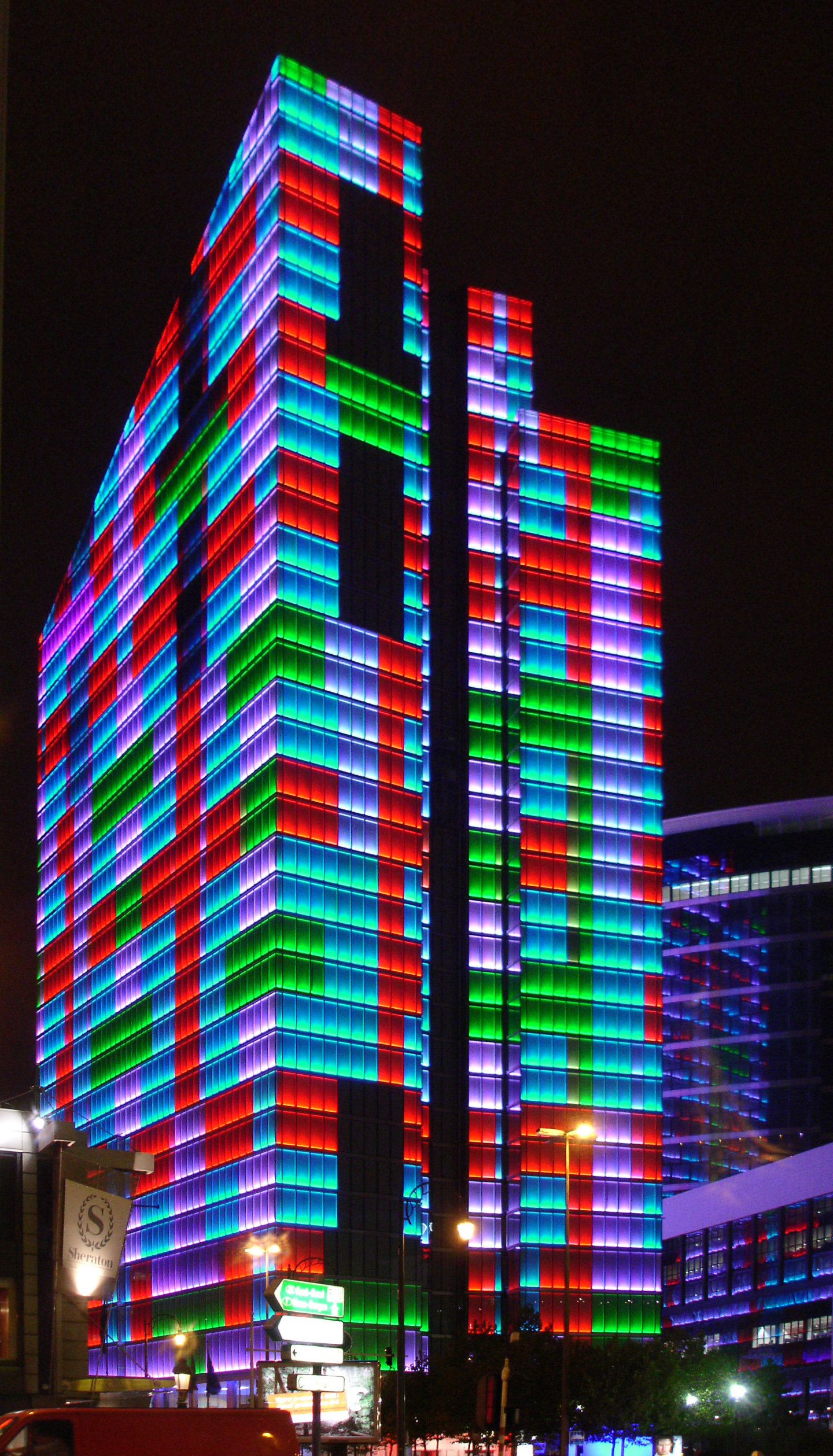 Dexia Tower light show at night